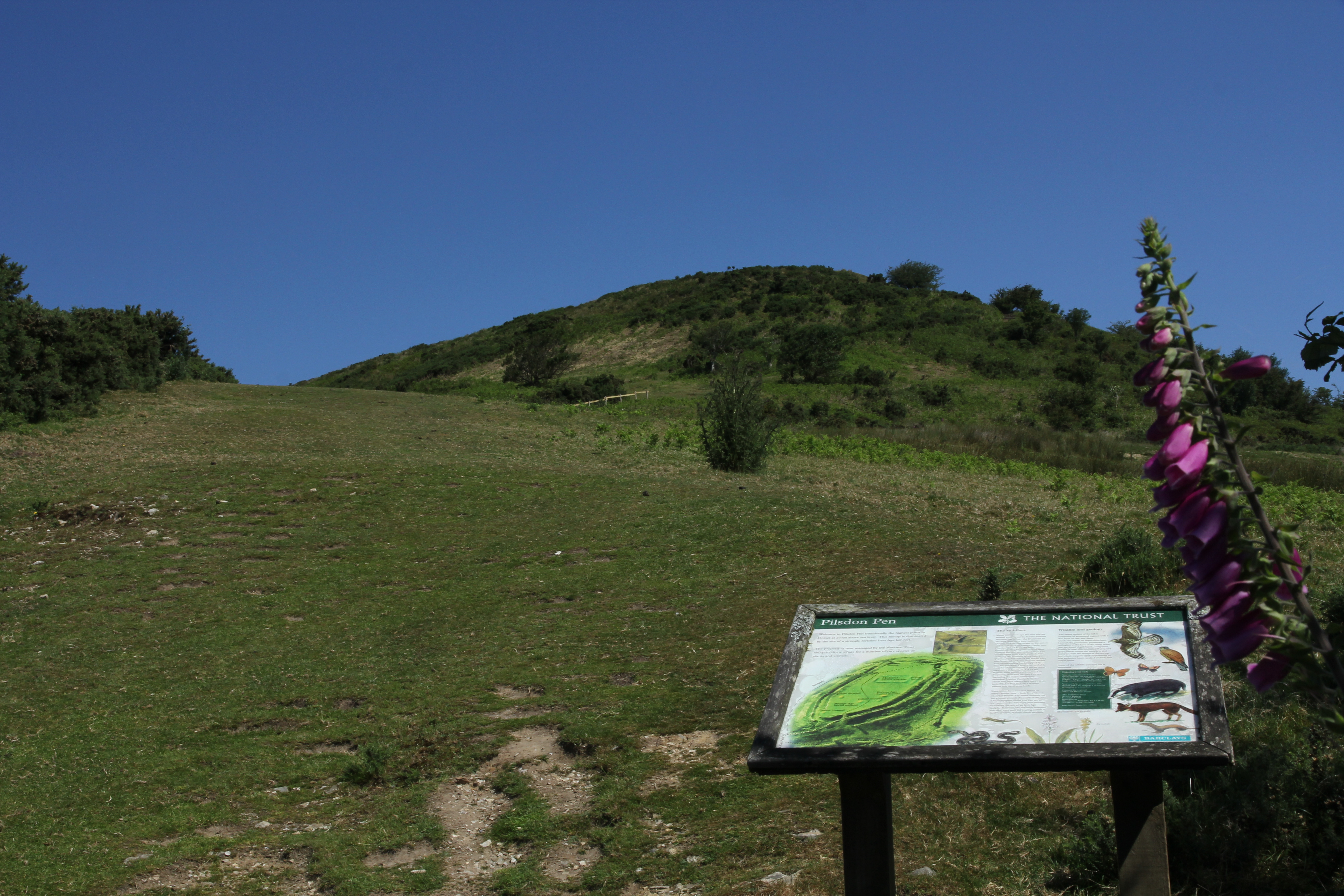 Atlas of Hillforts 3603 Pilsdon Pen from the information board by the road to the south